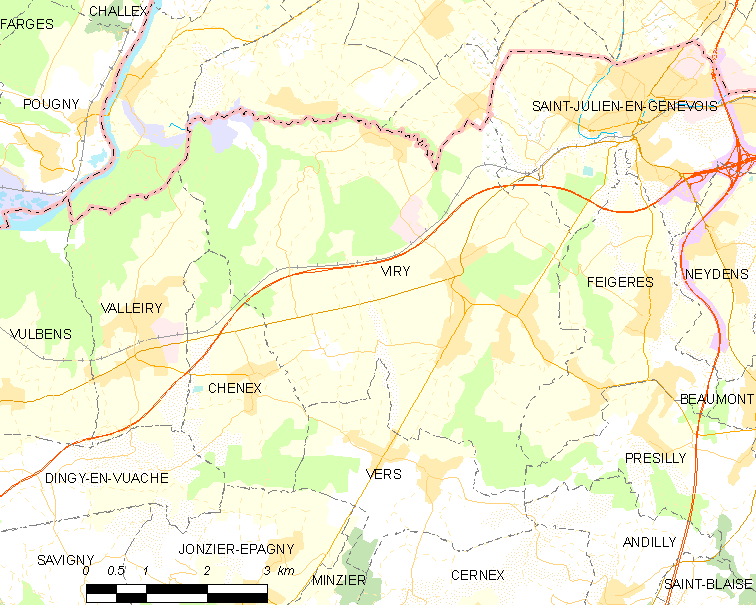 Map of French municipality Viry